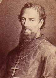 Summary